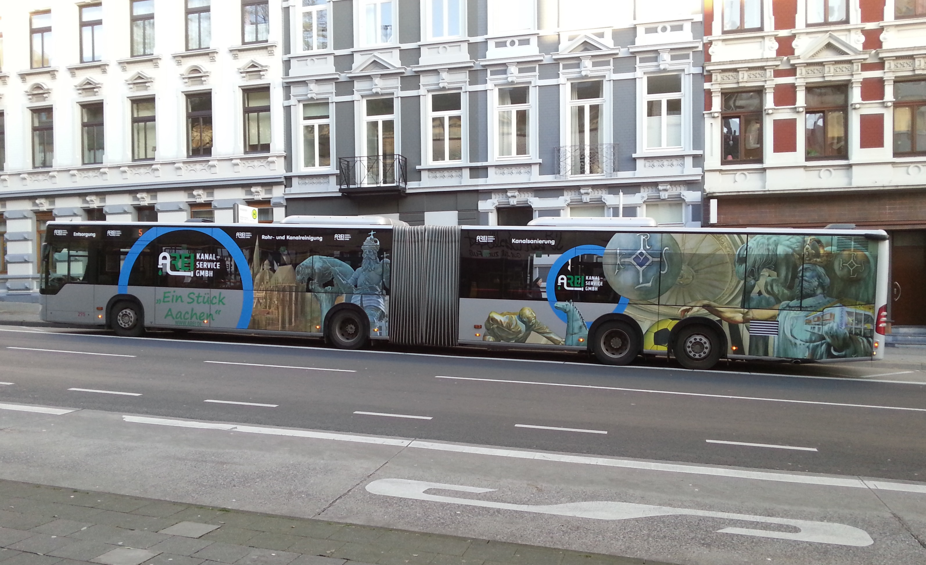 Quad-axle, low-floor articulated bus Mercedes-Benz O 530 GL CapaCity (AC-L 295) from ASEAG No. 295 in Aachen, Germany at the bus stop Annastreet at Löhergraben as line 5 to university hospital.